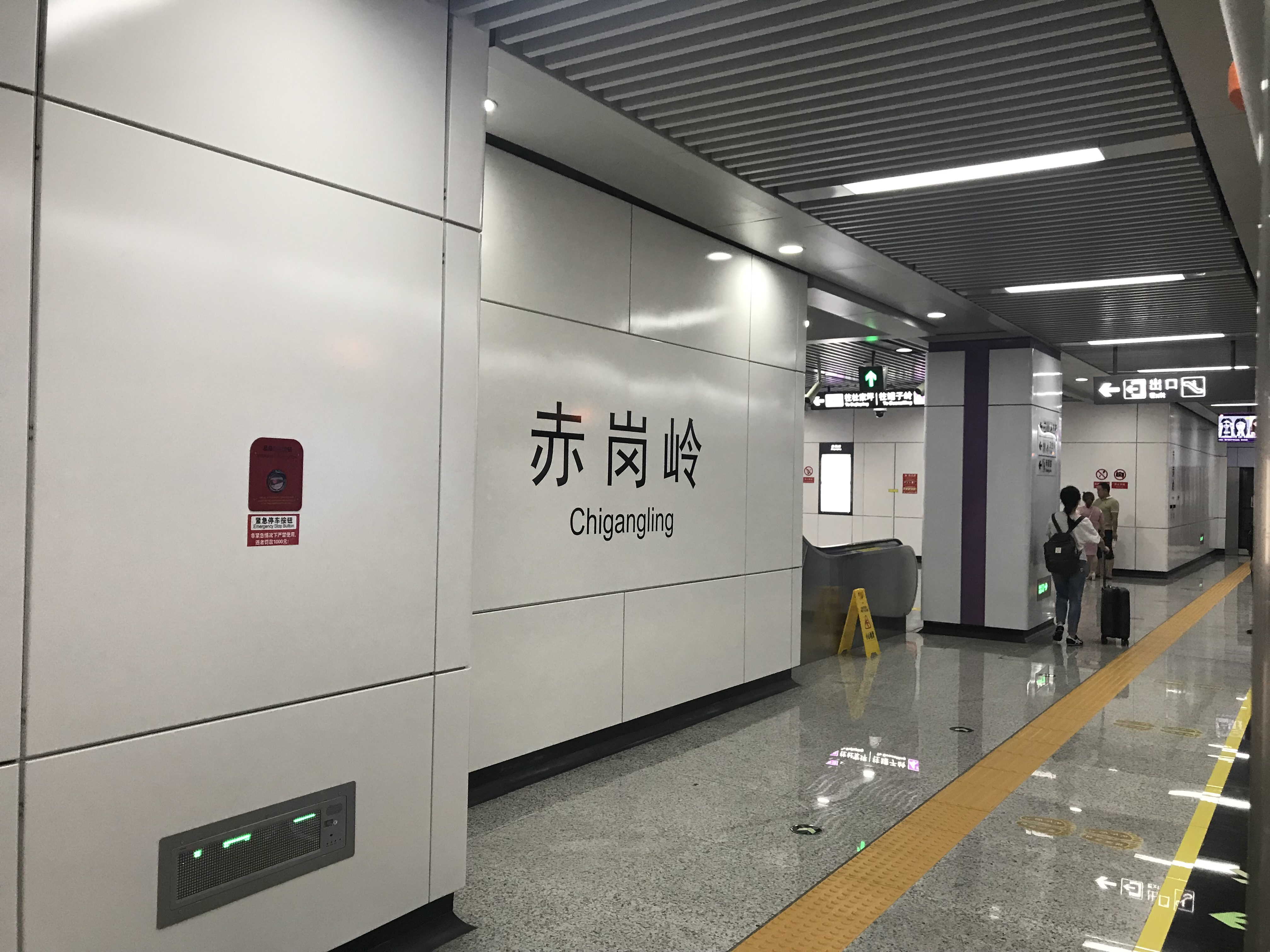 Remind me of GZM Station Chigang...